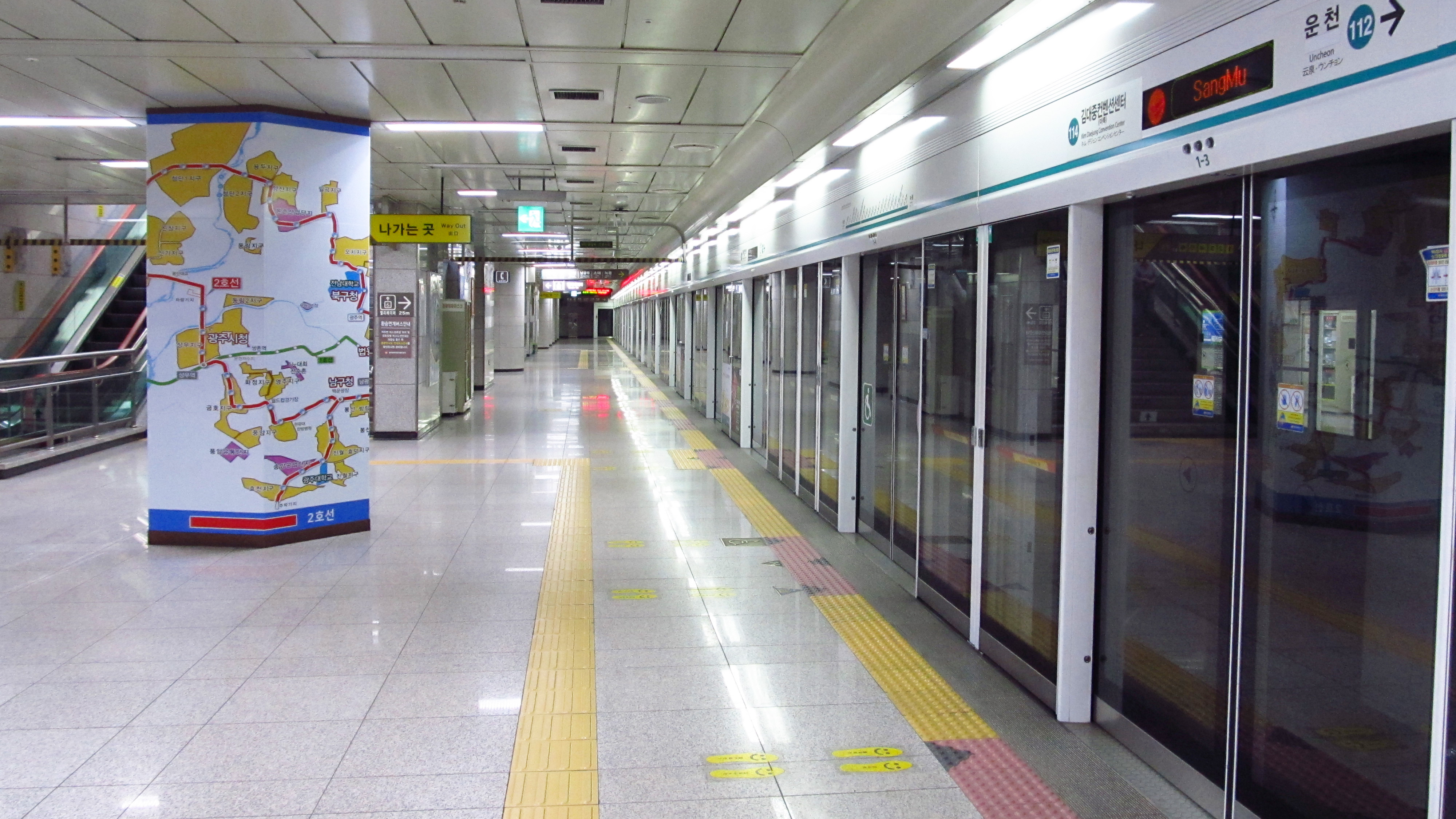 The platform at Sangmu Station on Gwangju Metro Line 1 in Seo-gu, Gwangju, Republic of Korea(South Korea)